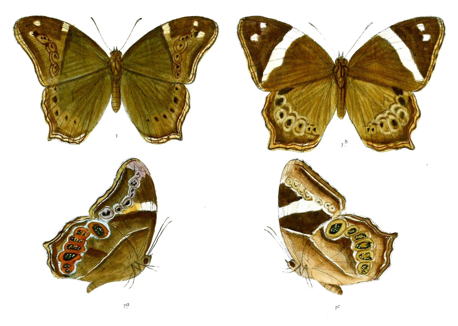 Lethe europa 1,1a Male 1b,1c Female